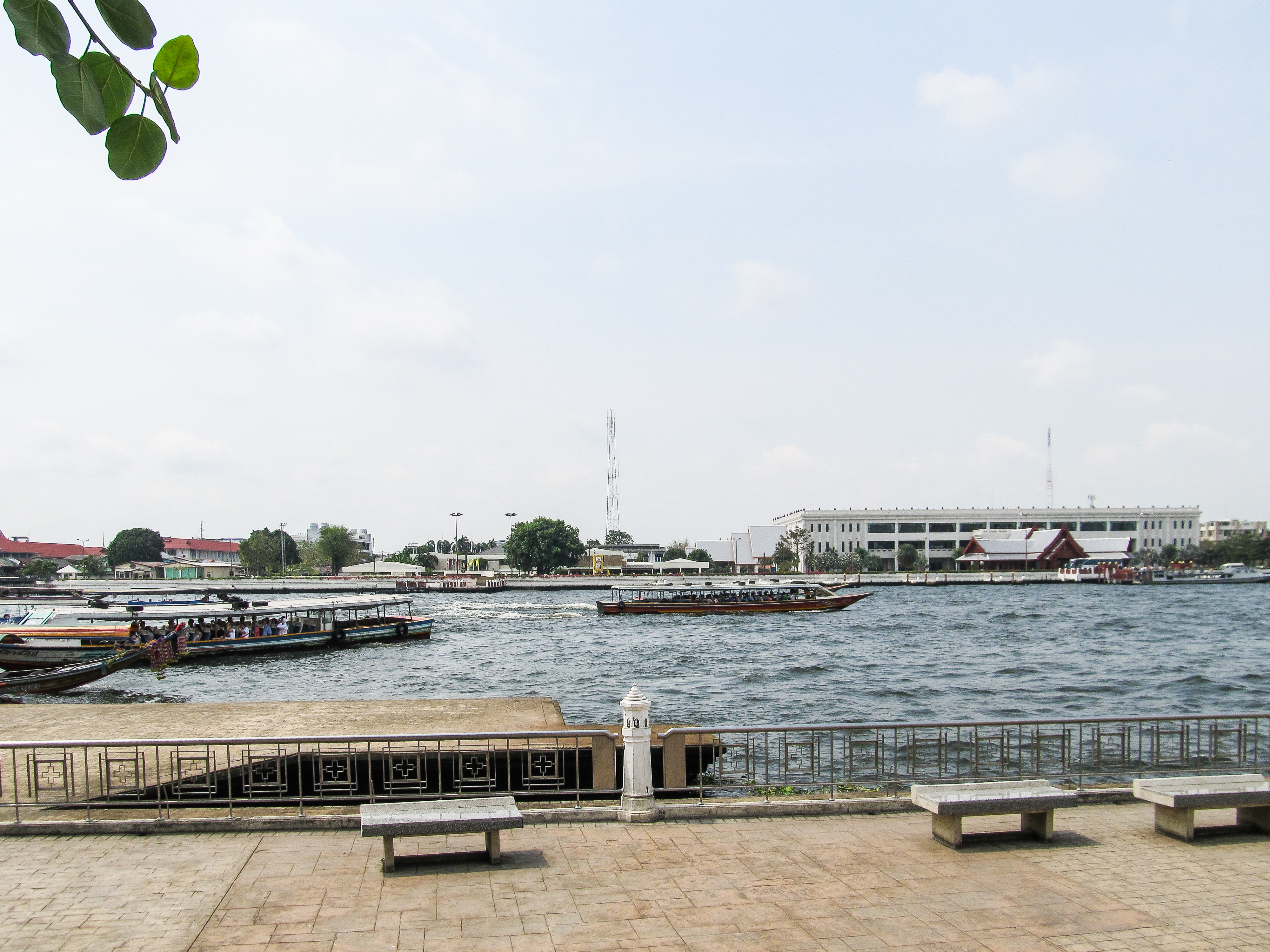 Bangkok